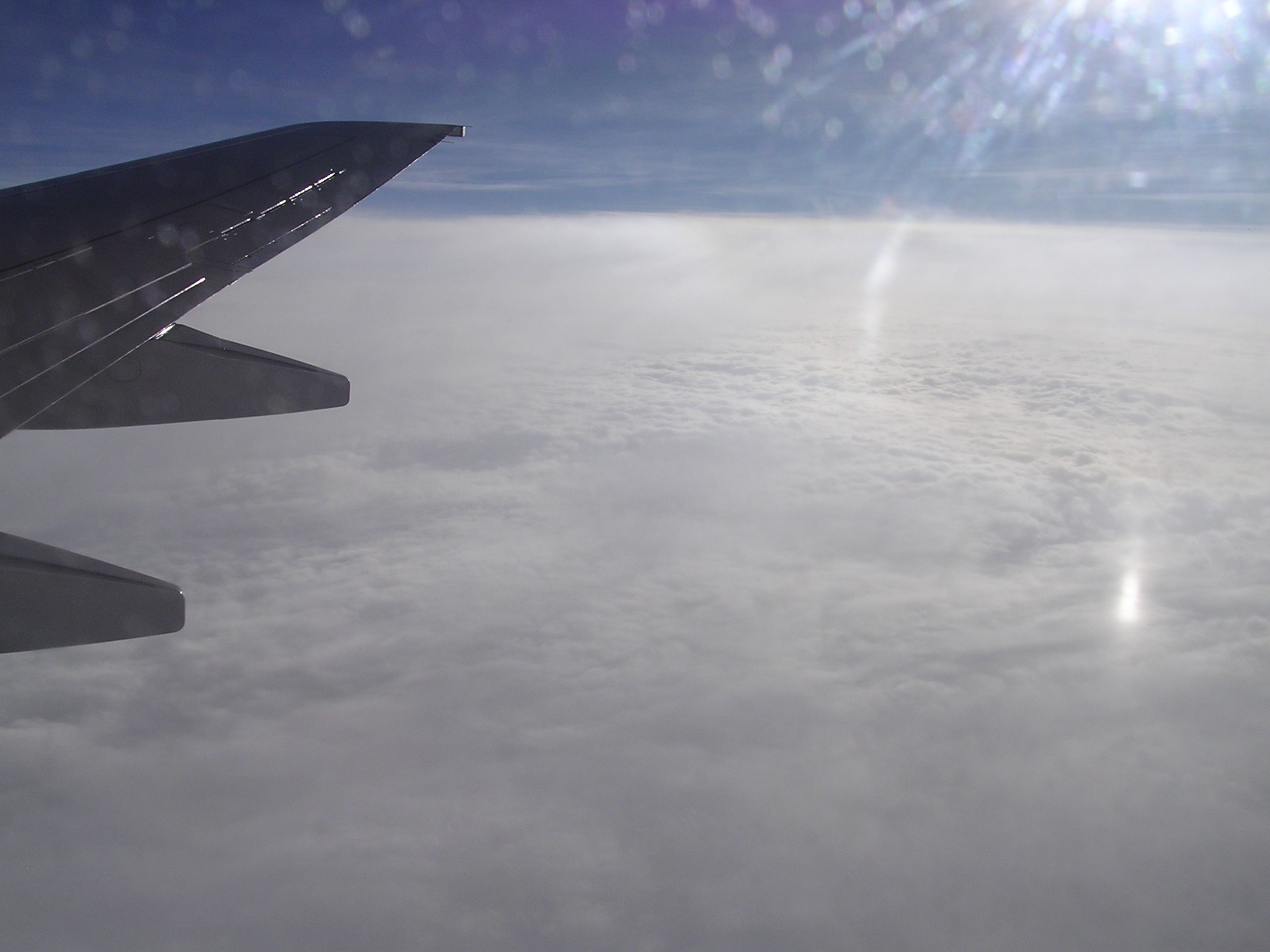 Photo of the cloud tops of Hurricane Beta taken by a passenger on a flight passing over Panama.